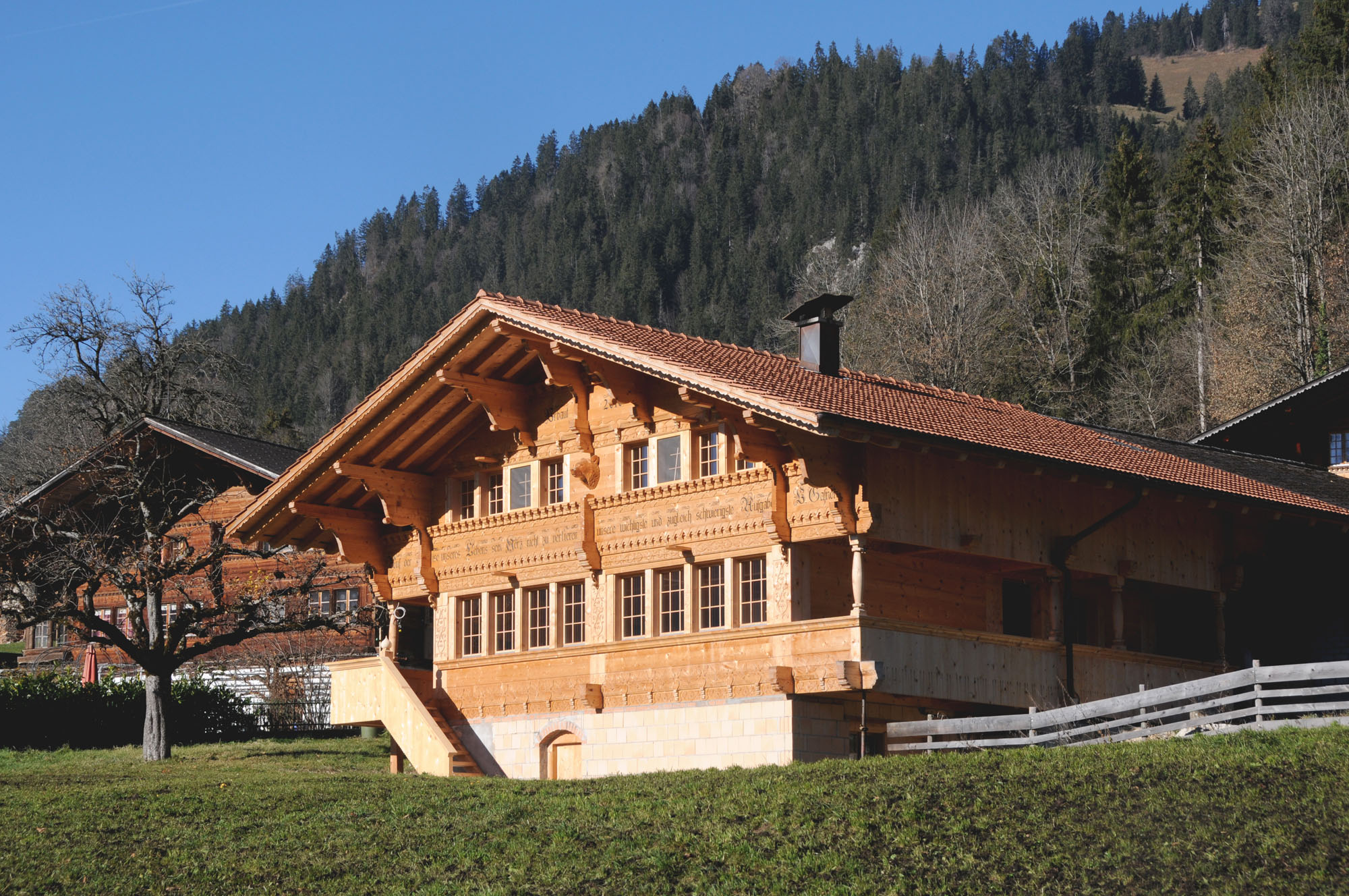 Timber frame log house, built 2010, Switzerland, Simmental